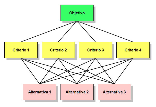 Illustration for Analytic Hierarchy Process article